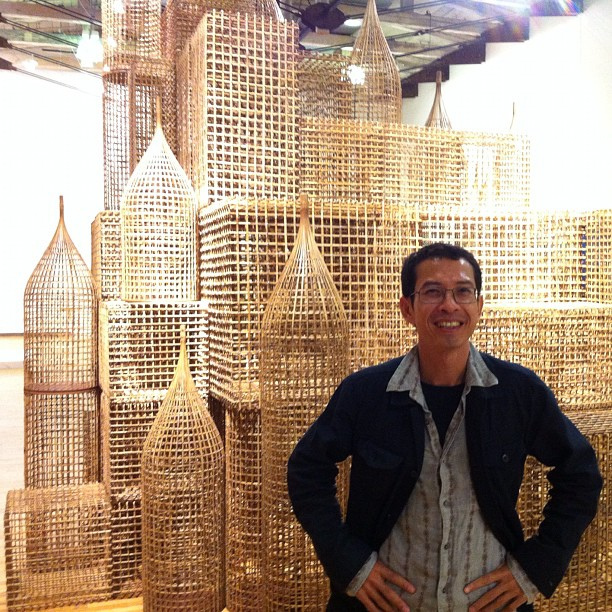 My friend Sopheap Pich, in front of his amazing sculpture at MASS MoCA